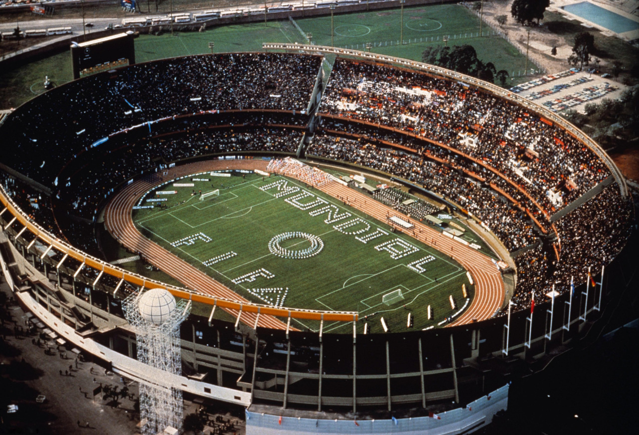 Photograph taken during the opening ceremony of the FIFA World Cup Argentina 1978.